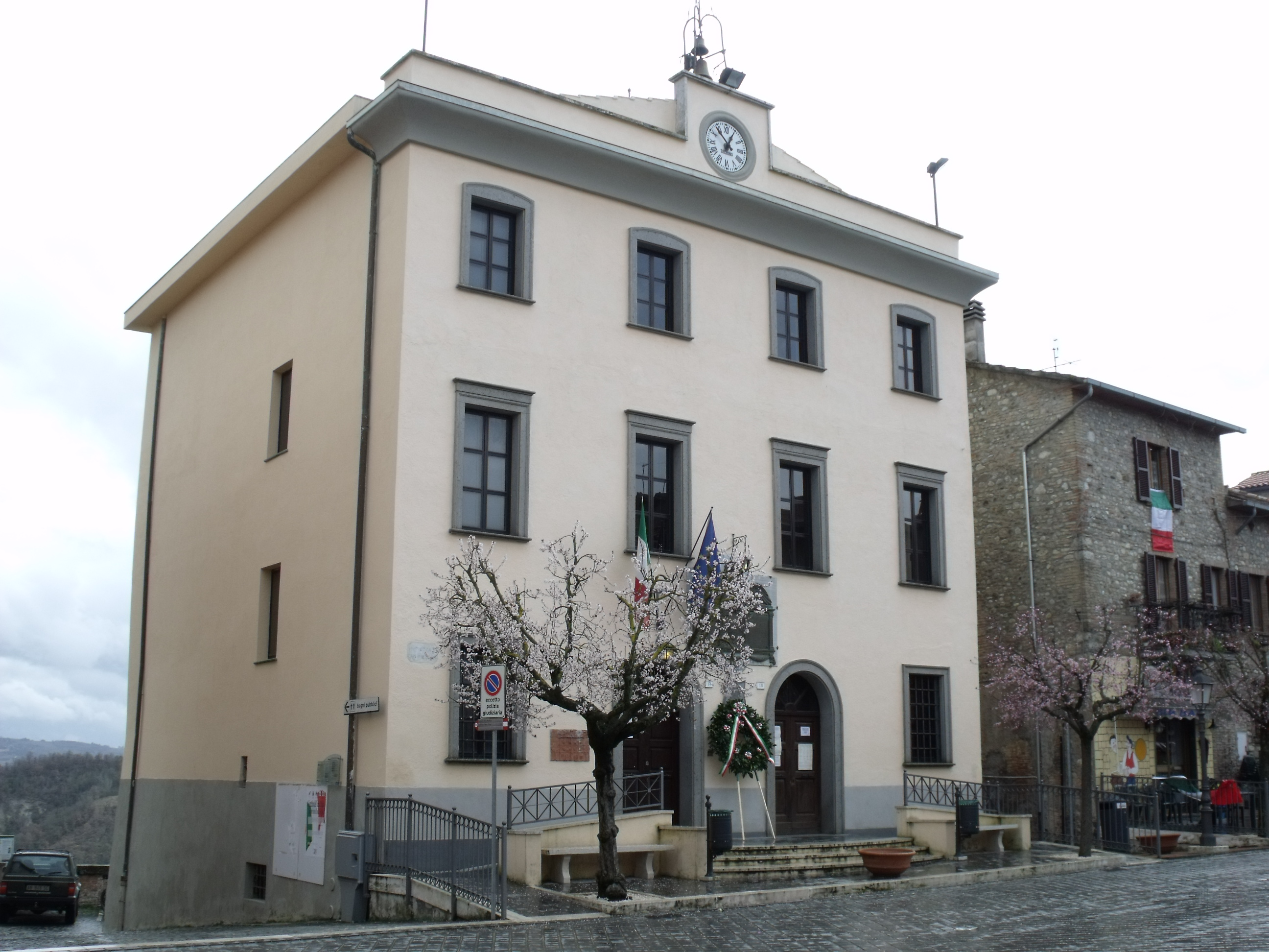 Townhall of Fabro, Province of Terni, Umbria